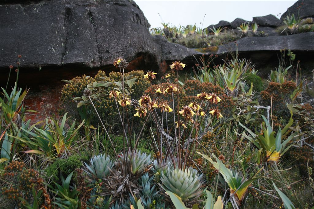 Orectanthe sceptrum of mount Roraima, Venezuela